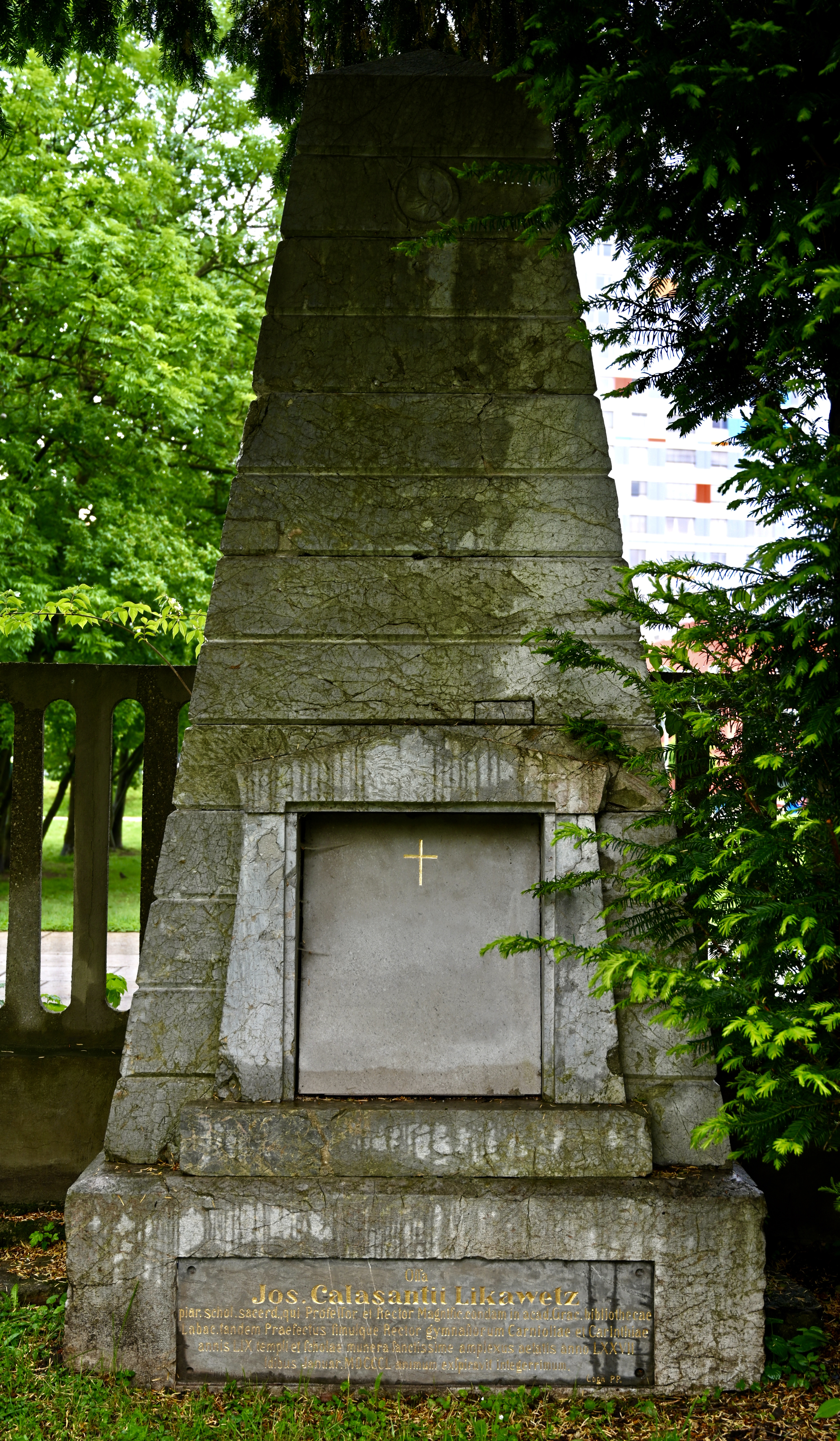 Tombstone of Jožef Kalasanc Likavec at Navje in Ljubljana